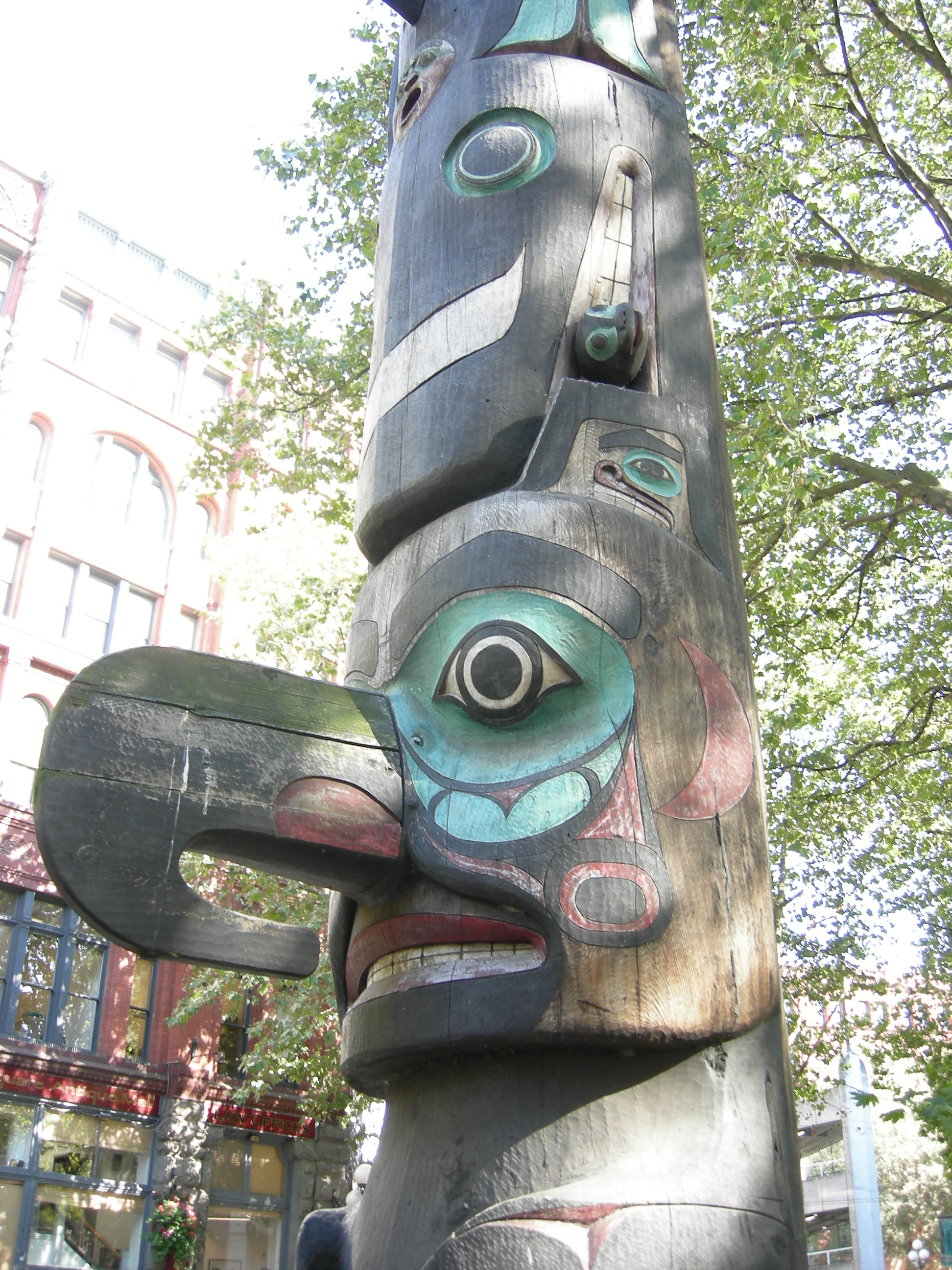 Detail of totem pole, Pioneer Square, Seattle, Washington, USA. Listed, along with the Pioneer Building and Iron Pergola, on the National Register of Historic Places, ID #77001340. There is also a broader inclusion for the Pioneer Square - Skid Row Historical District. This is a 1930s replica of the original Pioneer Square totem pole, which was damaged by arson. It is carved by descendants of the original carvers. [1]